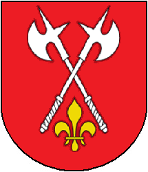 Coat of arms of Boncourt, Canton of Jura, Switzerland